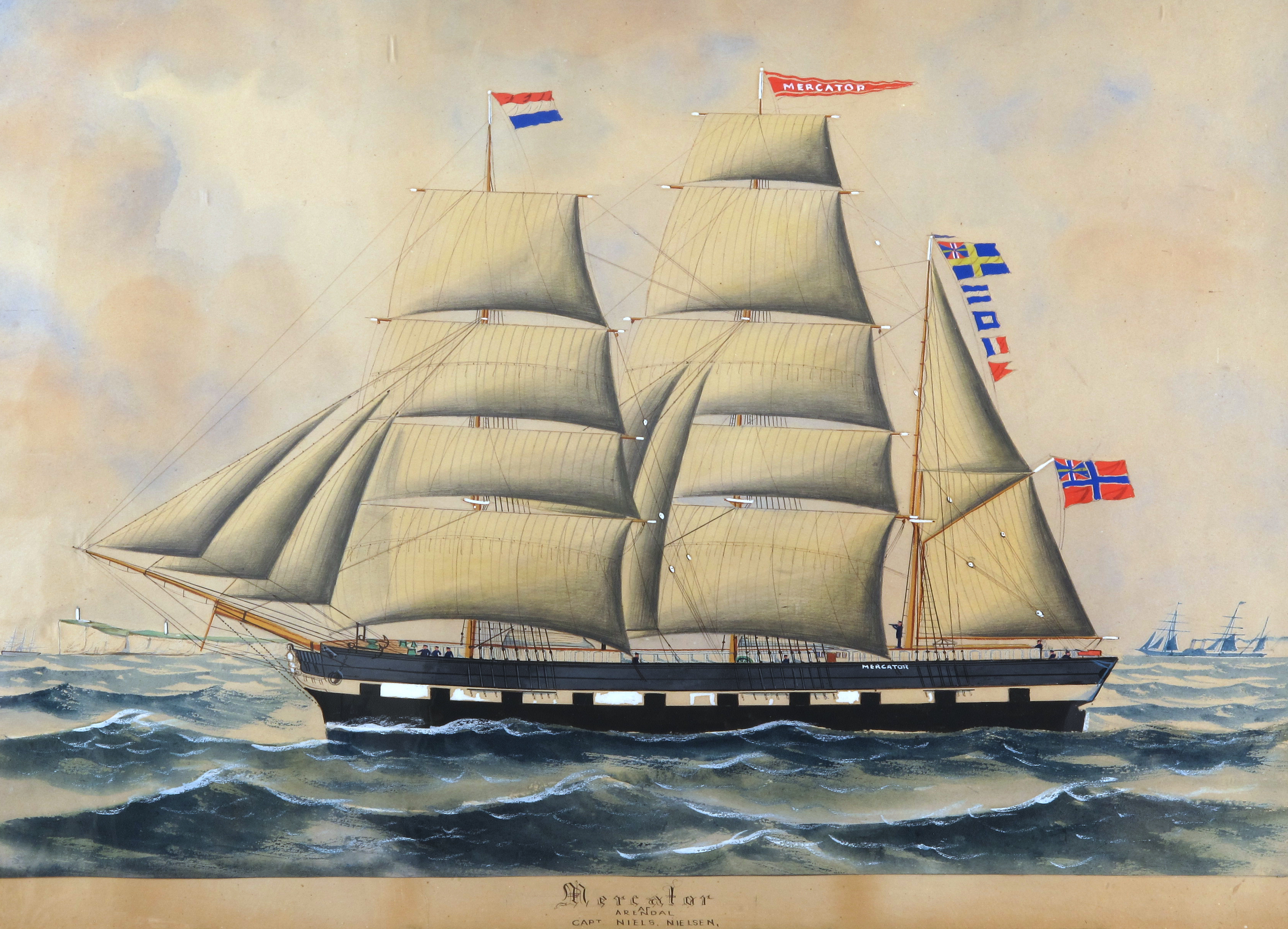 Bark under fulle seil.